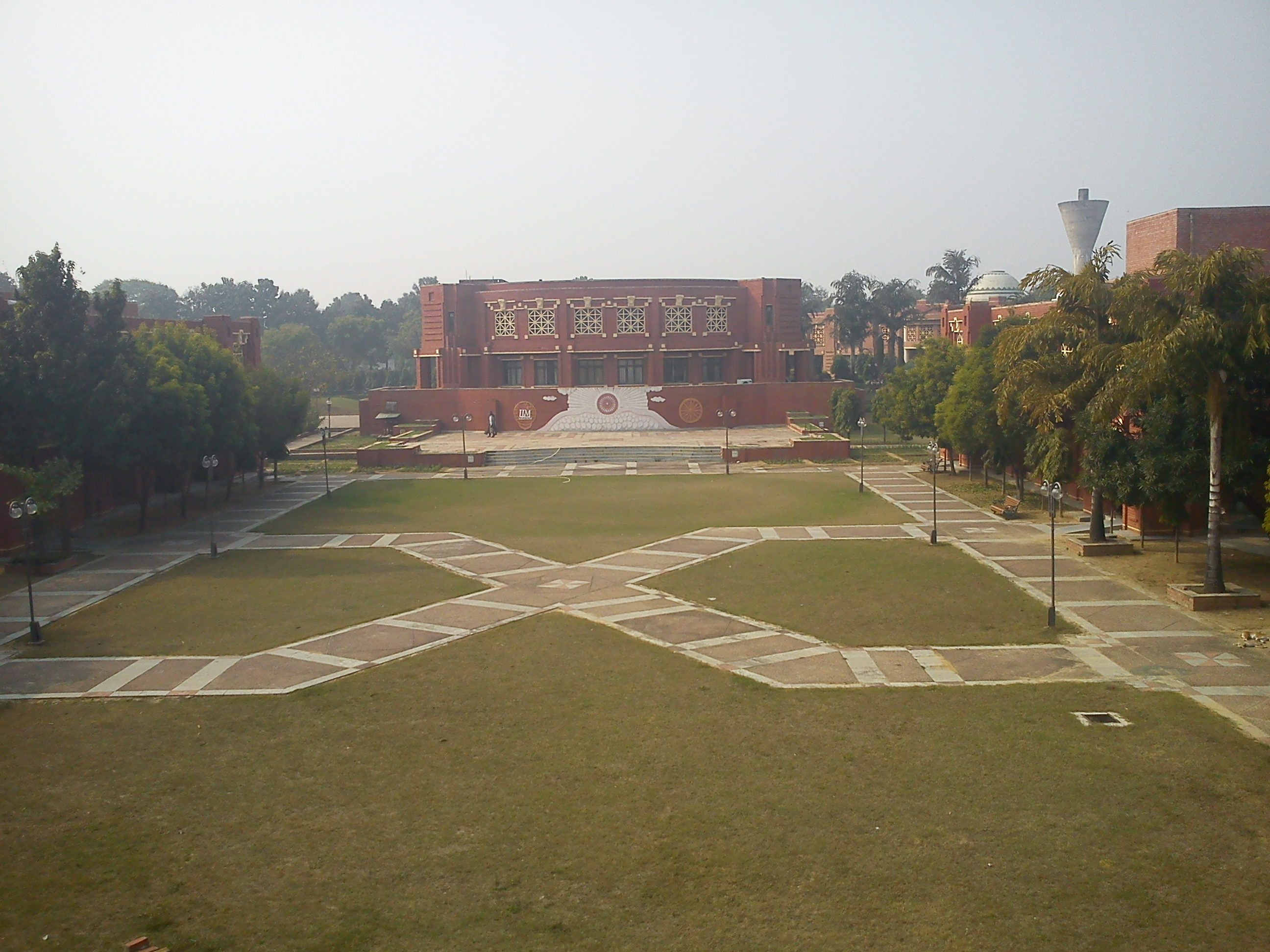 Breakout area in the midst of academic blocks, library and administrative block in IIM Lucknow